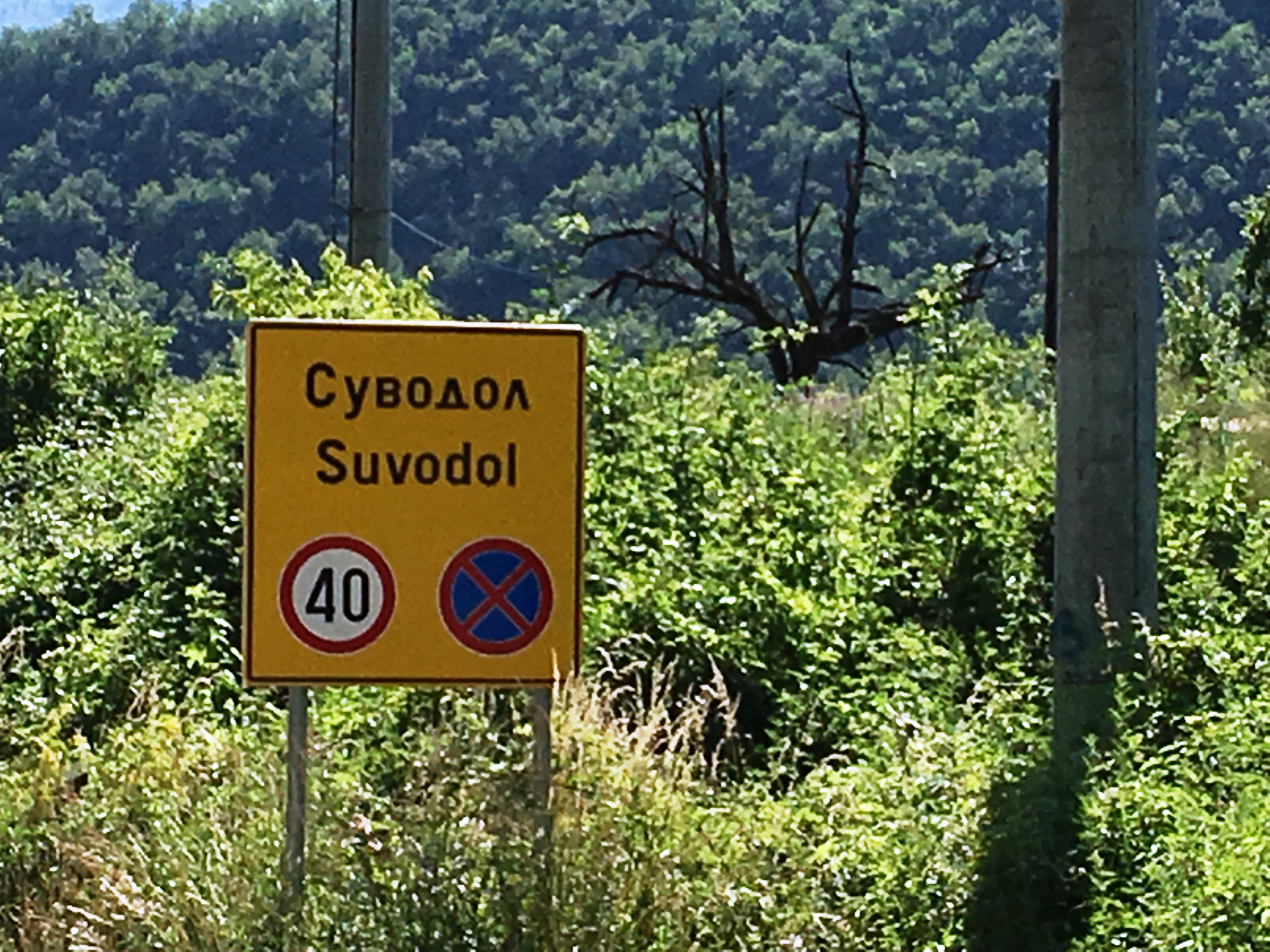 Road sign at the entrance of the village of Suvodol